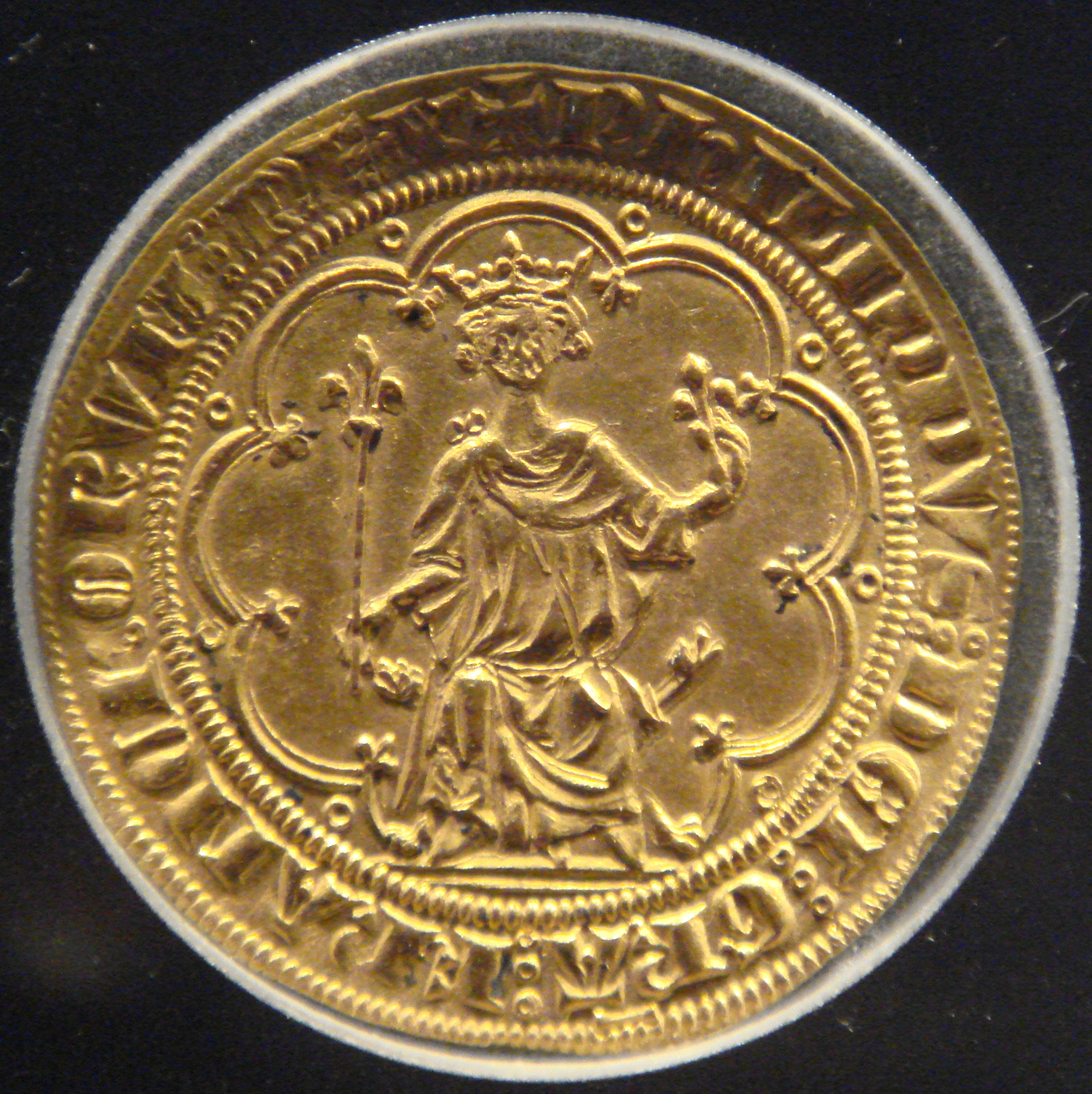 Masse_de_Philippe_le_Bel_10_January_1296_gold_7040mg